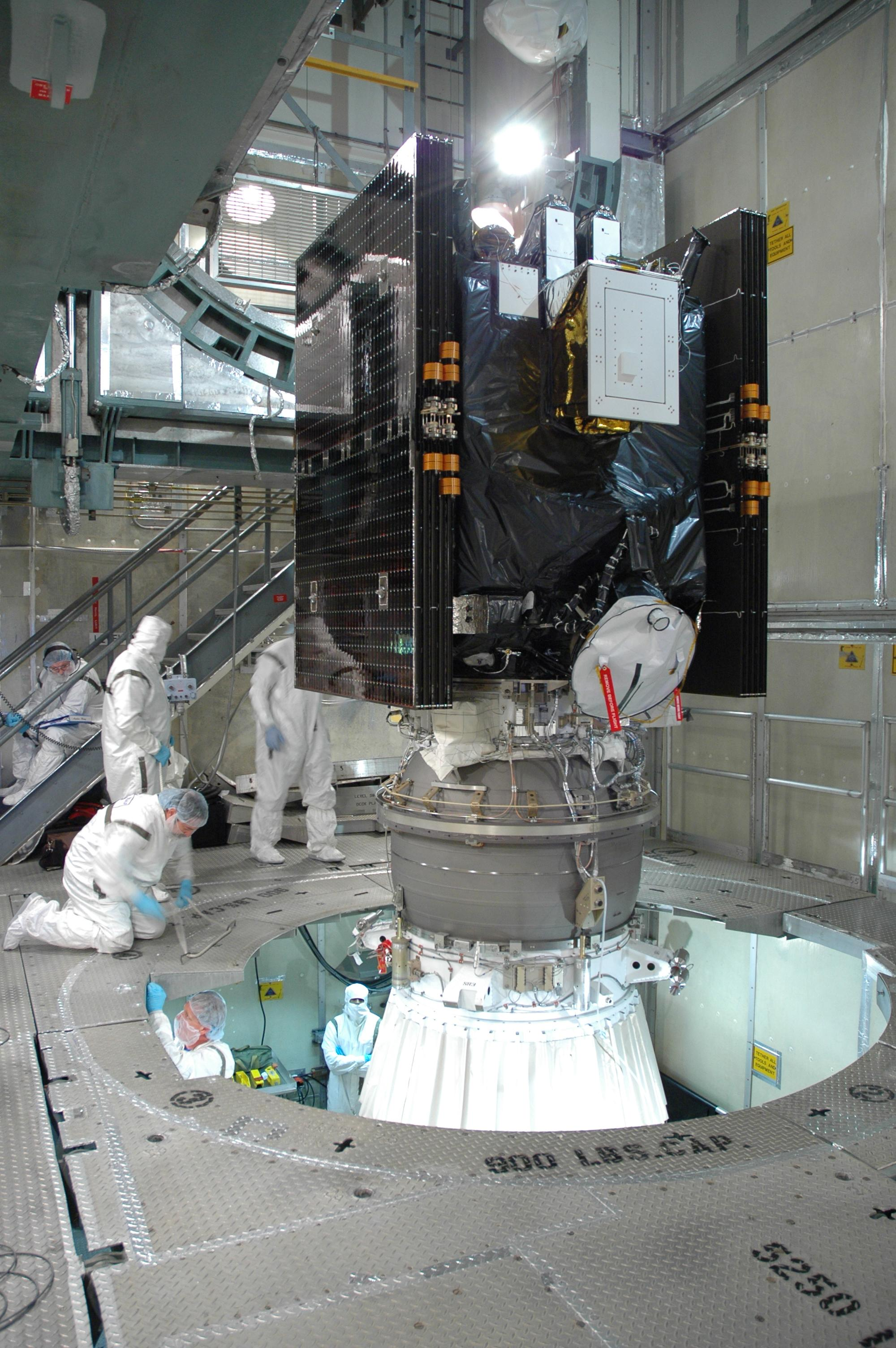 Dawn spacecraft for the second time on top of the Delta II 7925 Heavy rocket.